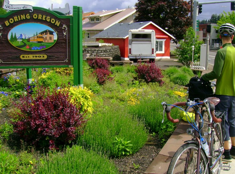 Boring, Oregon sign